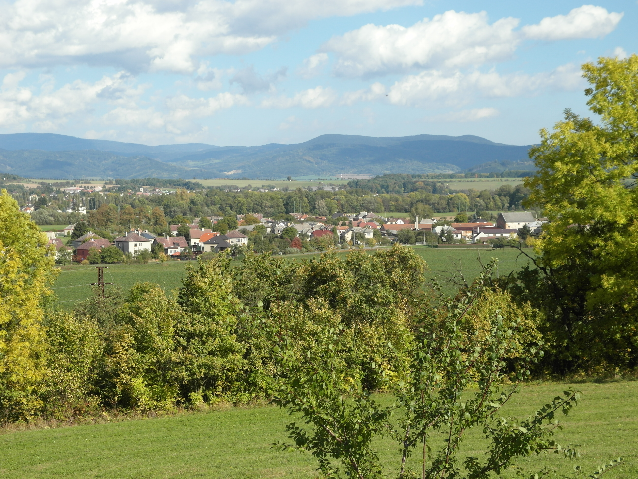 Panorama of Chromeč